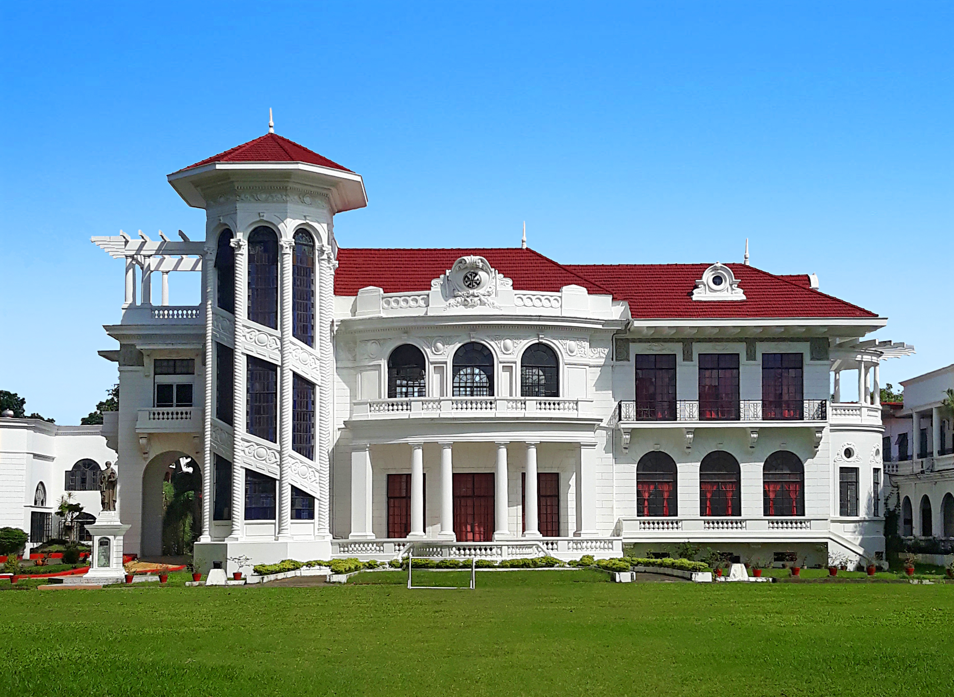 Villa Lizares (Lizares Mansion) houses the Angelicum School Iloilo in Jaro, Iloilo City, Philippines.